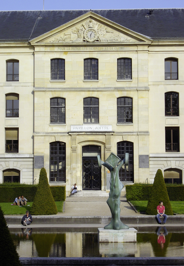 École polytechnique Paris pavilion Joffre Jardin carré “Pour la patrie la science et la gloire” 110417; 72dpi 30cm × 20.8cm. Anoymity of the people, touching up the faces.